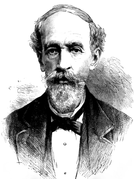 John Penn (1805–1878) was a mechanical engineer known for marine engines.